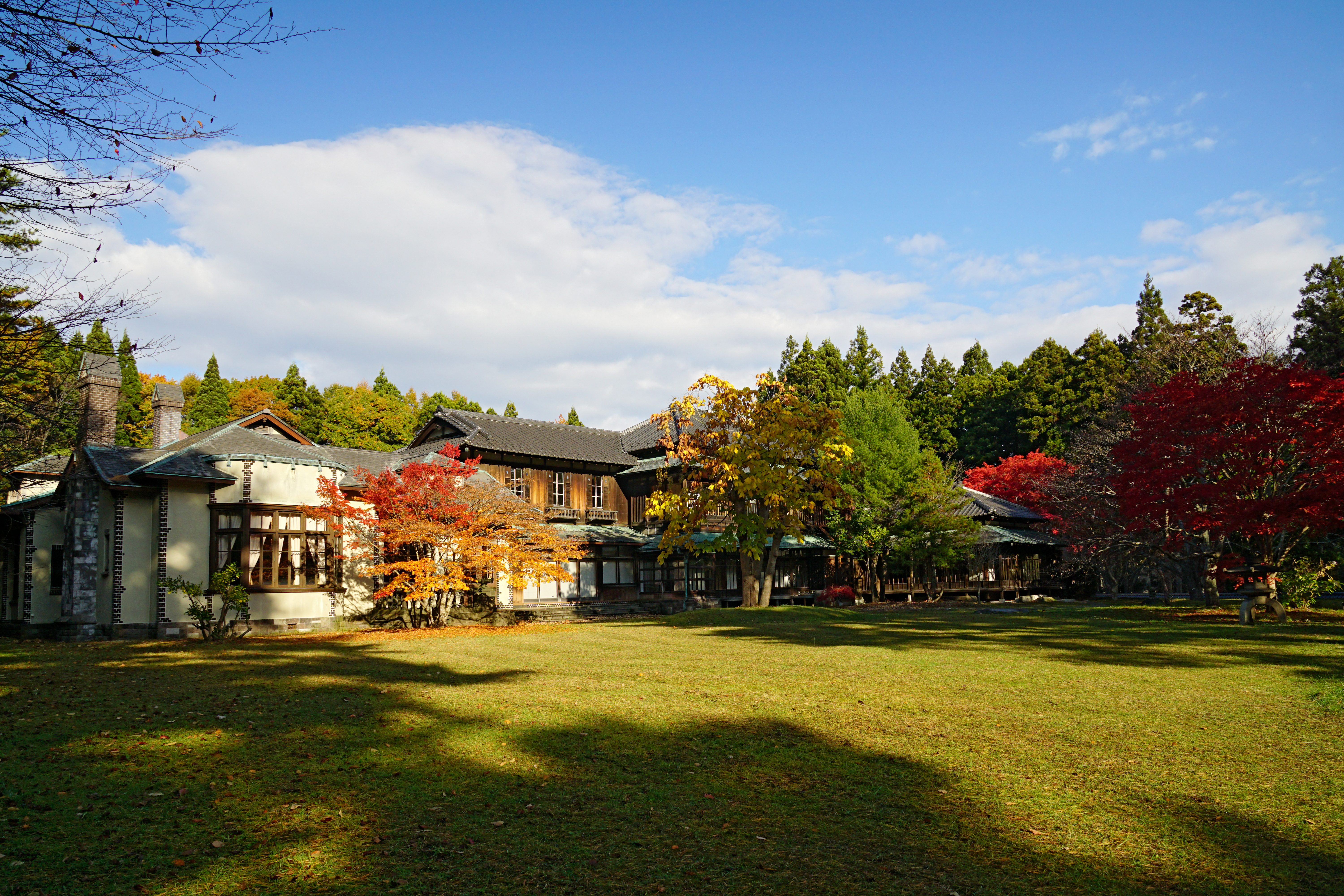 At Komaki Onsen Shibusawa Park in Misawa, Aomori prefecture, Japan.